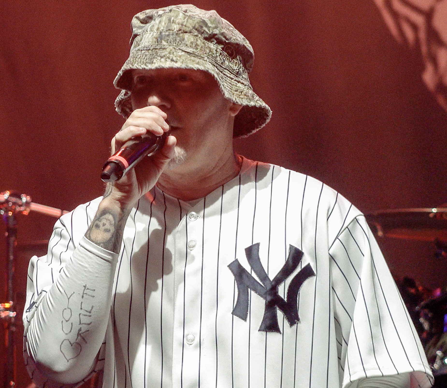 Fred Durst performing with Limp Bizkit at Quebec Agora Fest 2019.